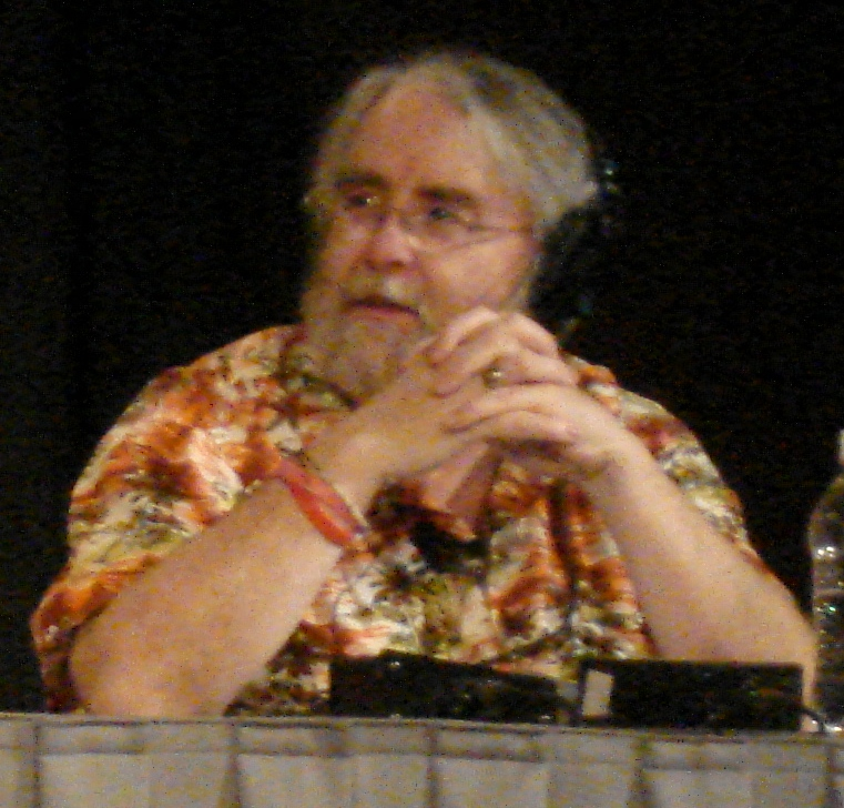 Charlie Pierce during the July 16, 2009 taping of NPR's Wait Wait... Don't Tell Me!